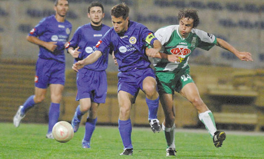 Zoran Levnaic in action